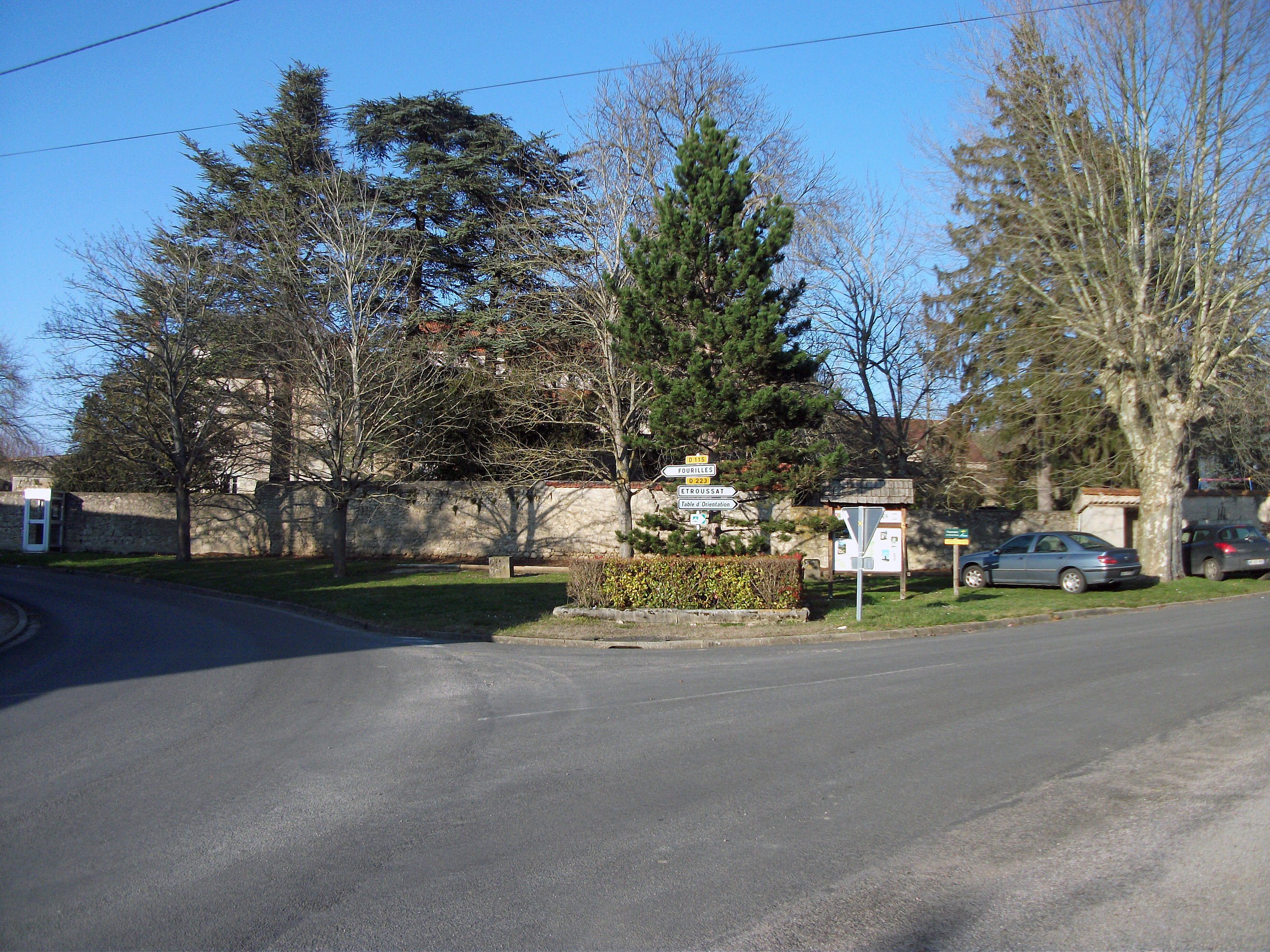 Intersection between departmental roads 115 and 223 in Ussel-d'Allier, Allier [10504]